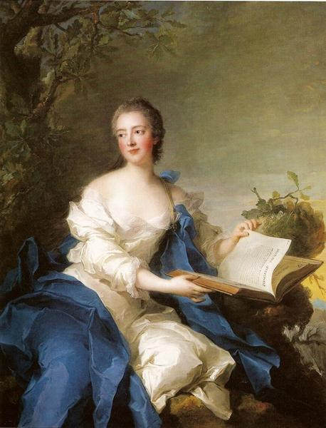 Marie-Sophie de Courcillon (1713–1756), second wife of Hercule-Mériadec de Rohan (1669–1749), is shown seated holding a book, entitled Histoire universelle, which is open at the chapter on Mariage chez les Anciens.